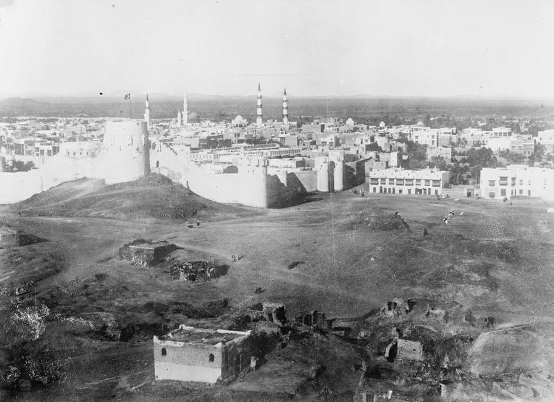 T E Lawrence and the Arab Revolt 1916 - 1918 General view of Medina from outside the walls, from the south.